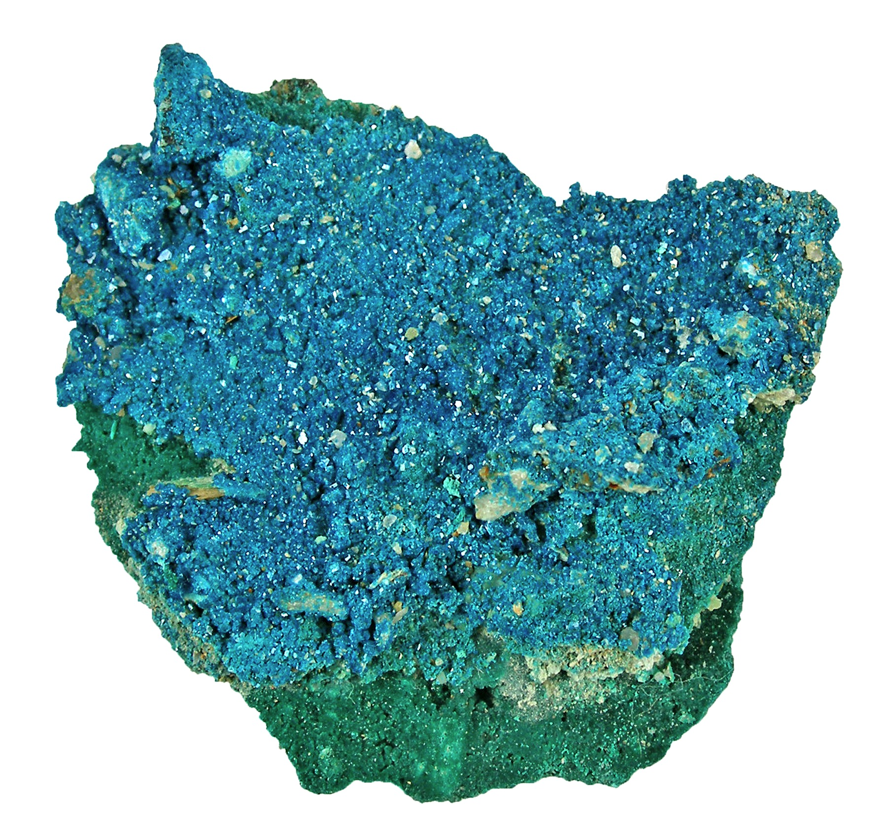 Langite Locality: Mountain Mine, Allihies, Beara Peninsula, County Cork, Ireland (Locality at ) Size: miniature, 3.4 x 2.9 x 0.7 cm A showy and excellent specimen of sparkly, rich teal-blue langite microcrystals on matrix from Ireland! Langite is a copper sulfate, rare overall, and known at its prettiest from this classic locale. This miniature is sparkling, like blue sugar, and is a very appealing example of the species